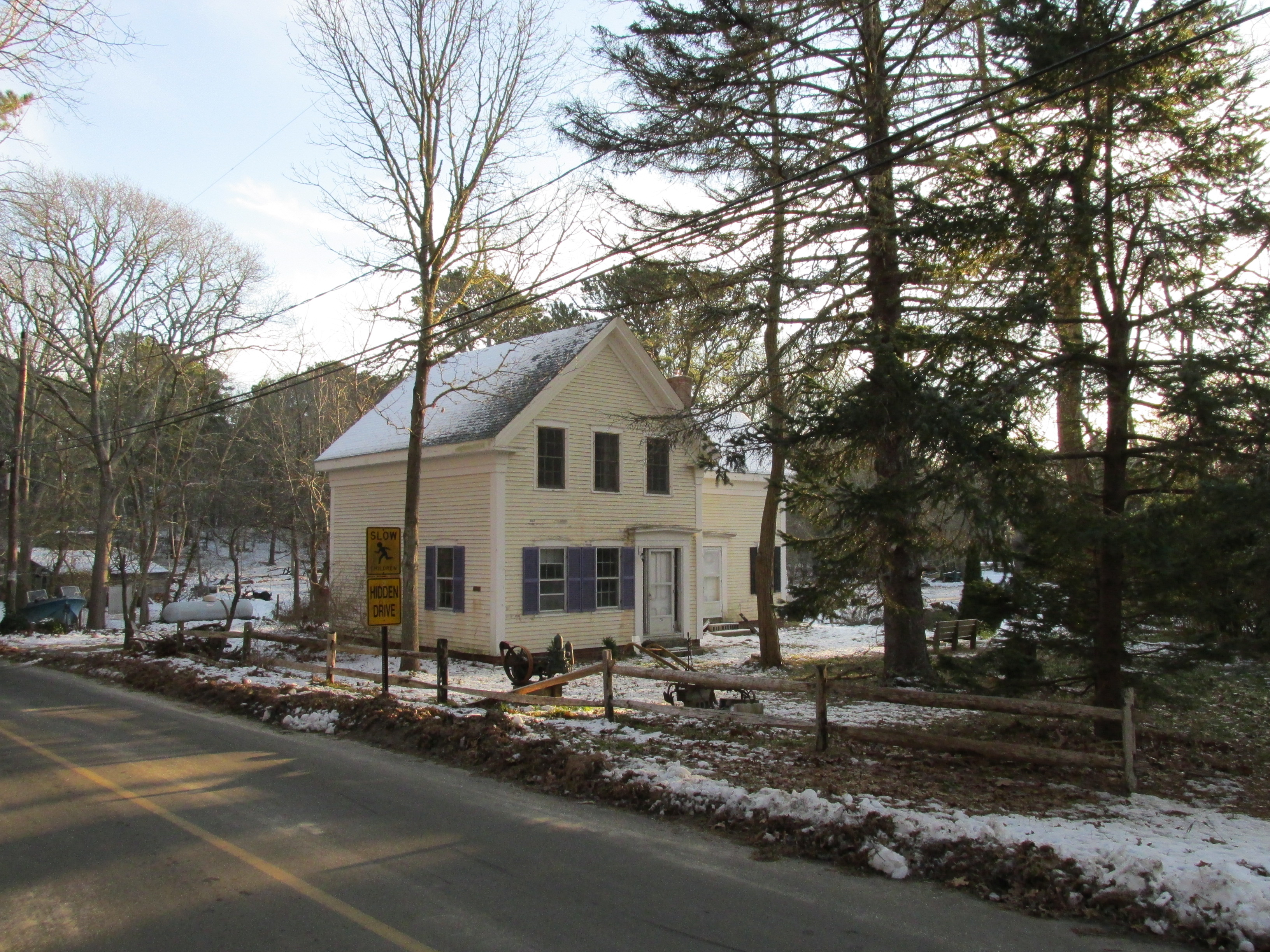 Capt. Otis West House, Wellfleet Massachusetts